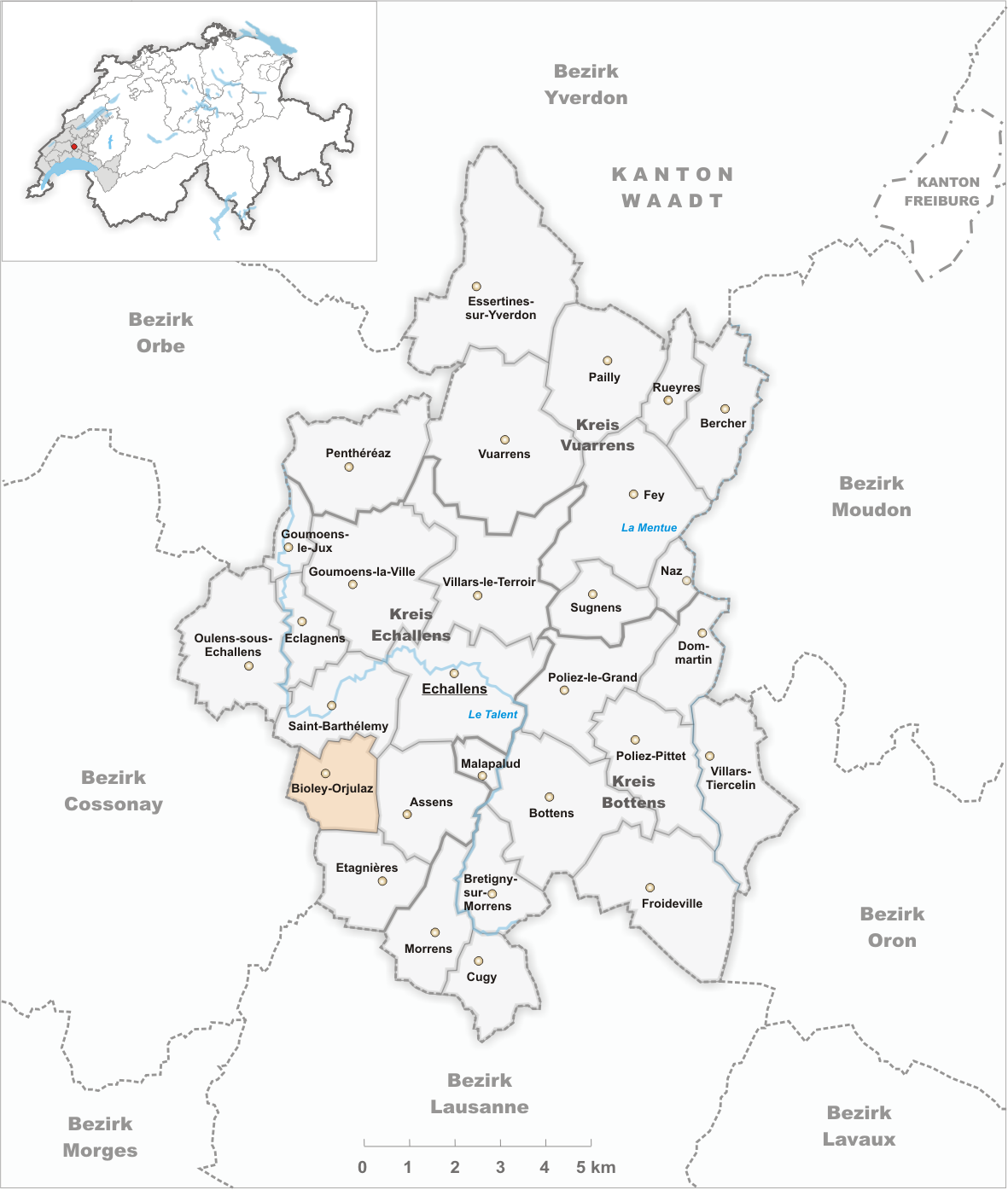 Municipality Bioley-Orjulaz